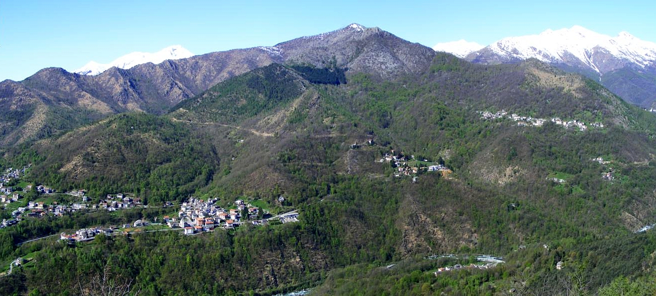 Uja di Calcante from Saint Igazio's sanctuary